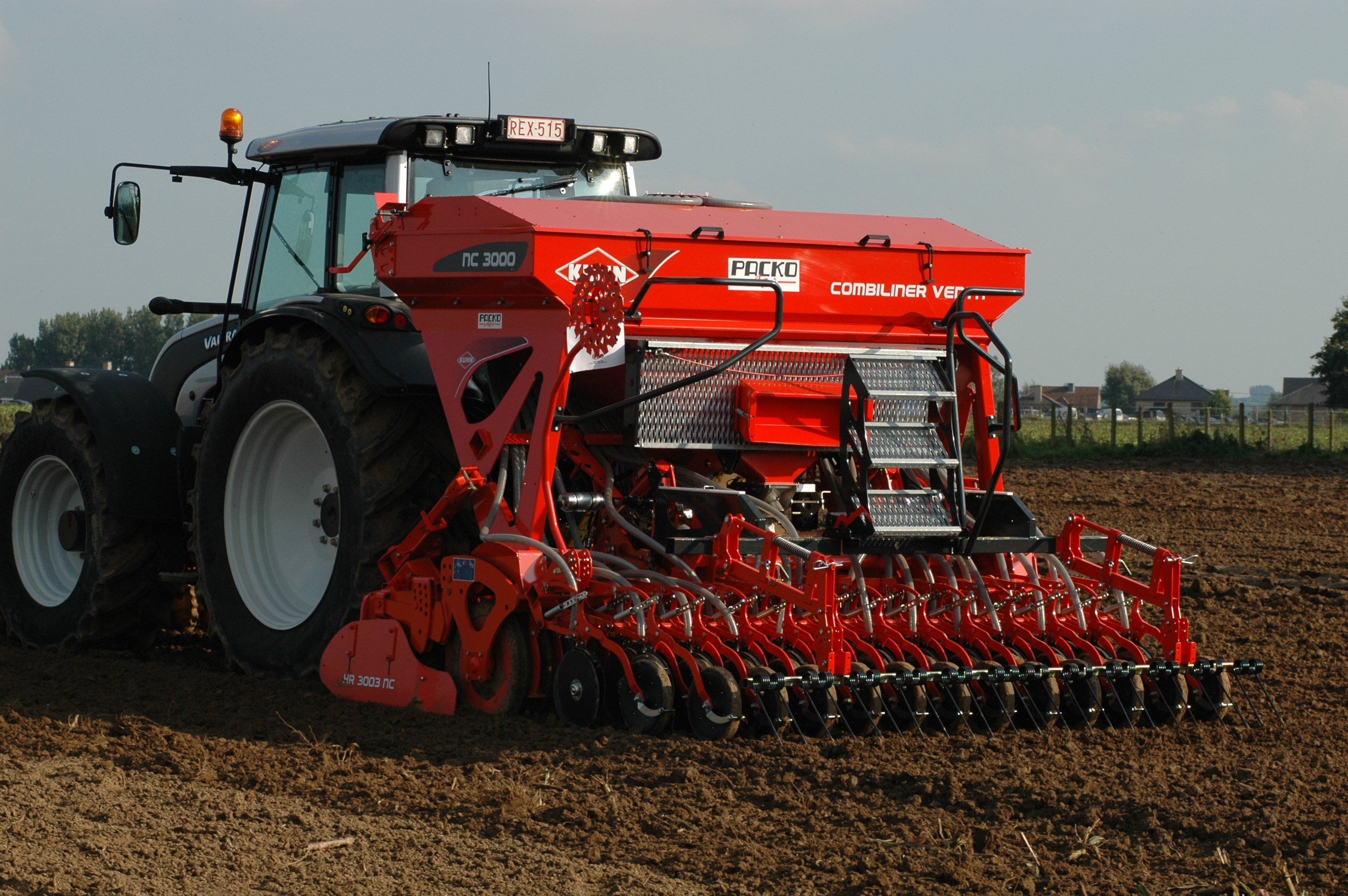 A Valtra N141 tractor with a Kuhn seed drill NC 3000 at Werktuigendagen 2007